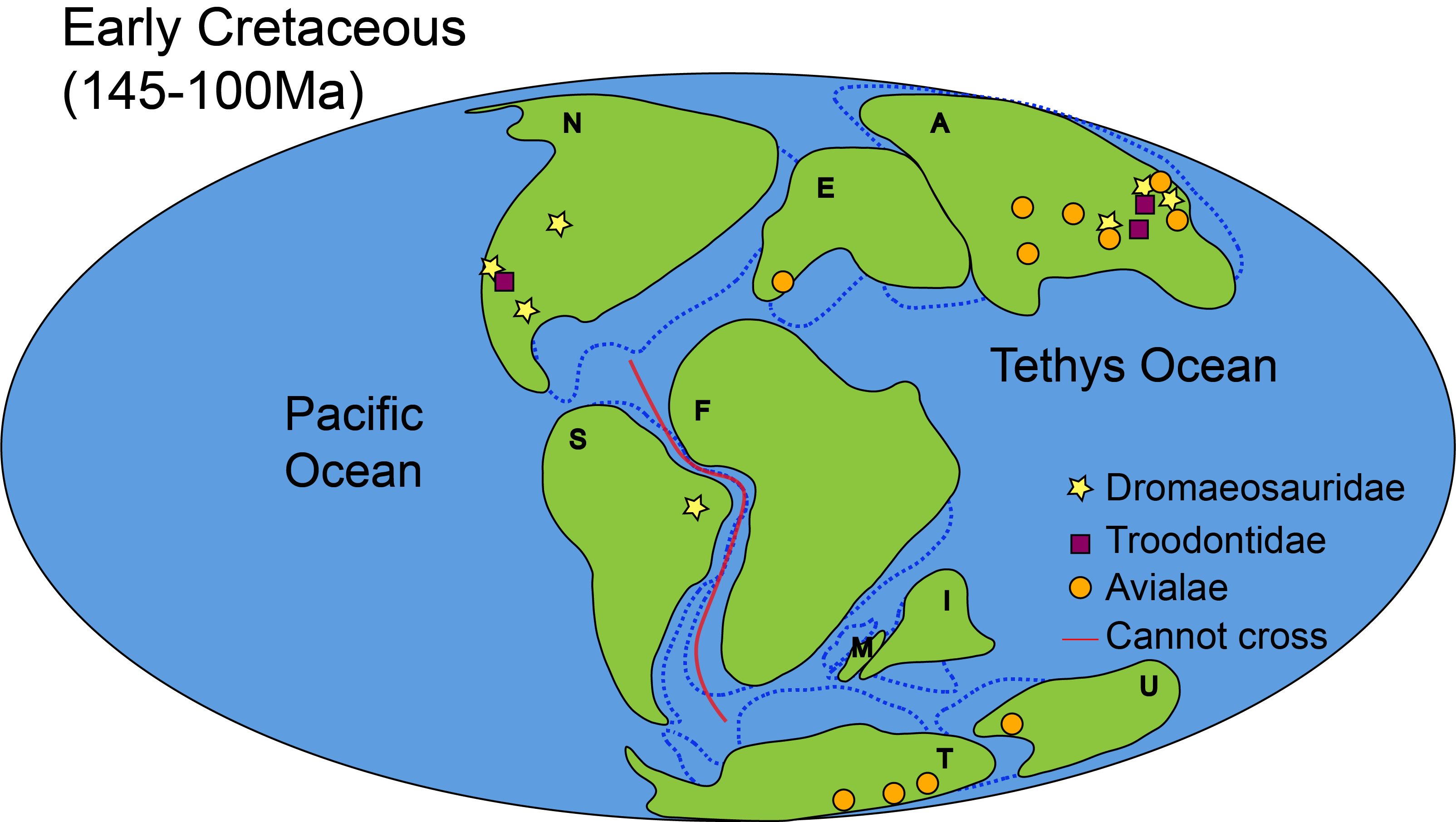 A map showing the distribution of paraves in Early Cretaceous with respective paleogeographic setting.